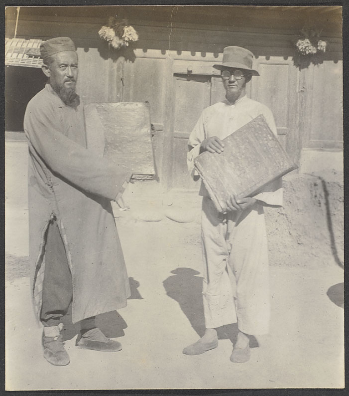 Qurans being held by two Salar muslims in Kehtsikung, Tsinghai.Photo taken at Gai zi Mosque, Jishi, in Xunhua Salarzu Zizhixian, Qinghai Sheng, China.